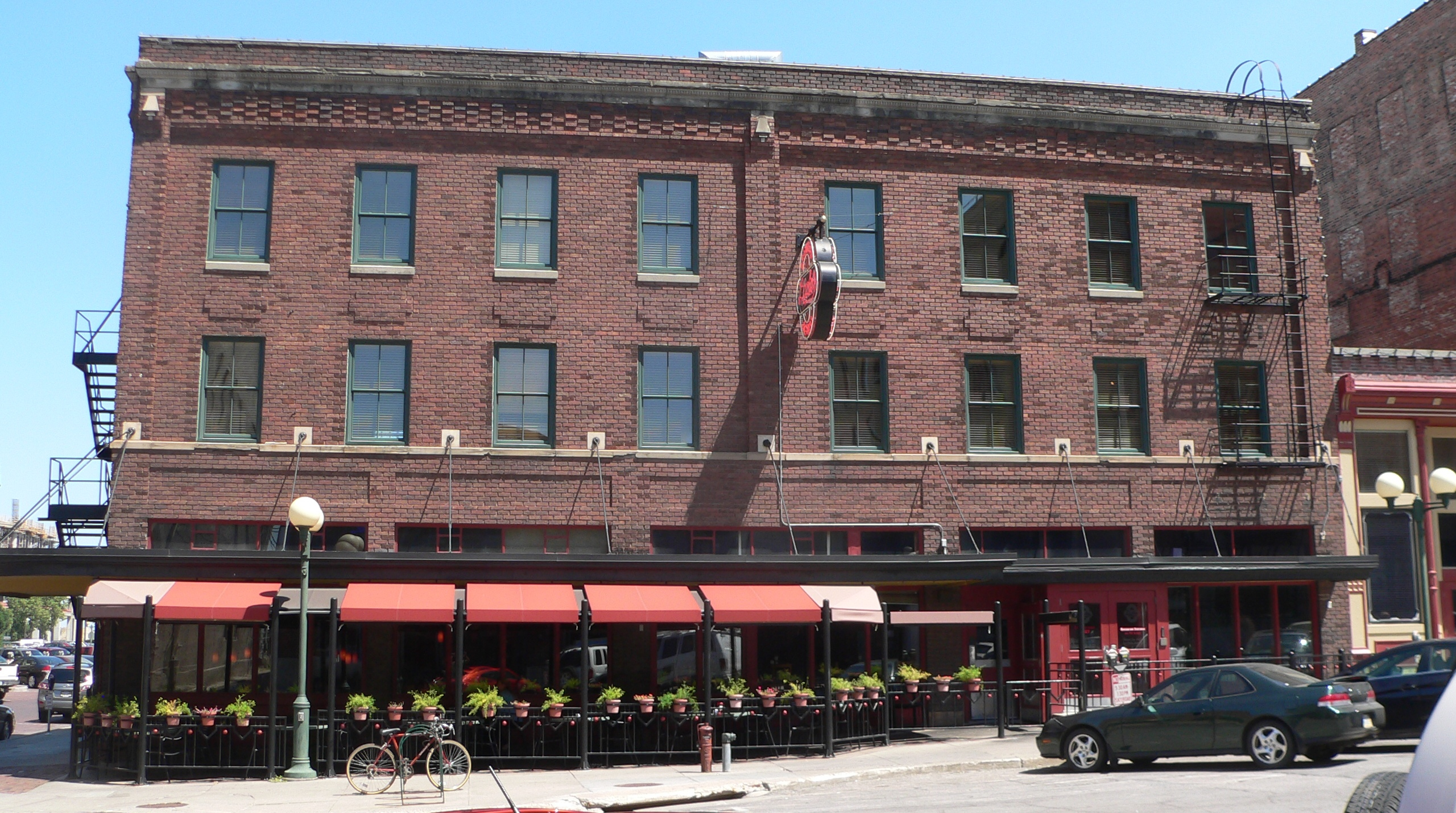 Haymarket District in Lincoln, Nebraska: Lazlo's Brewery & Grill, occupying the northeast corner of 7th and P Streets. View is from the south, across P.